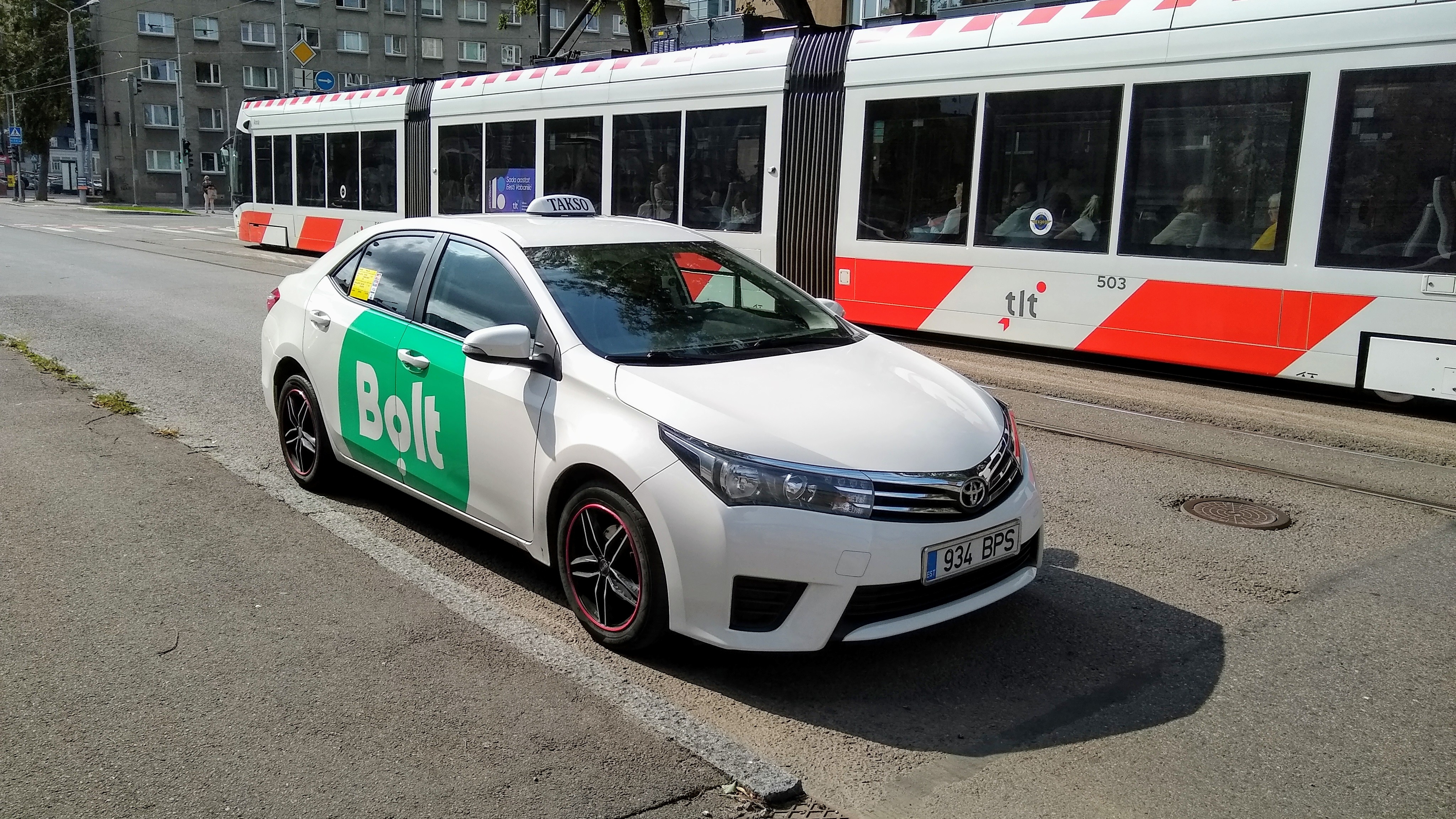 Taxi in Tallinn, Estonia